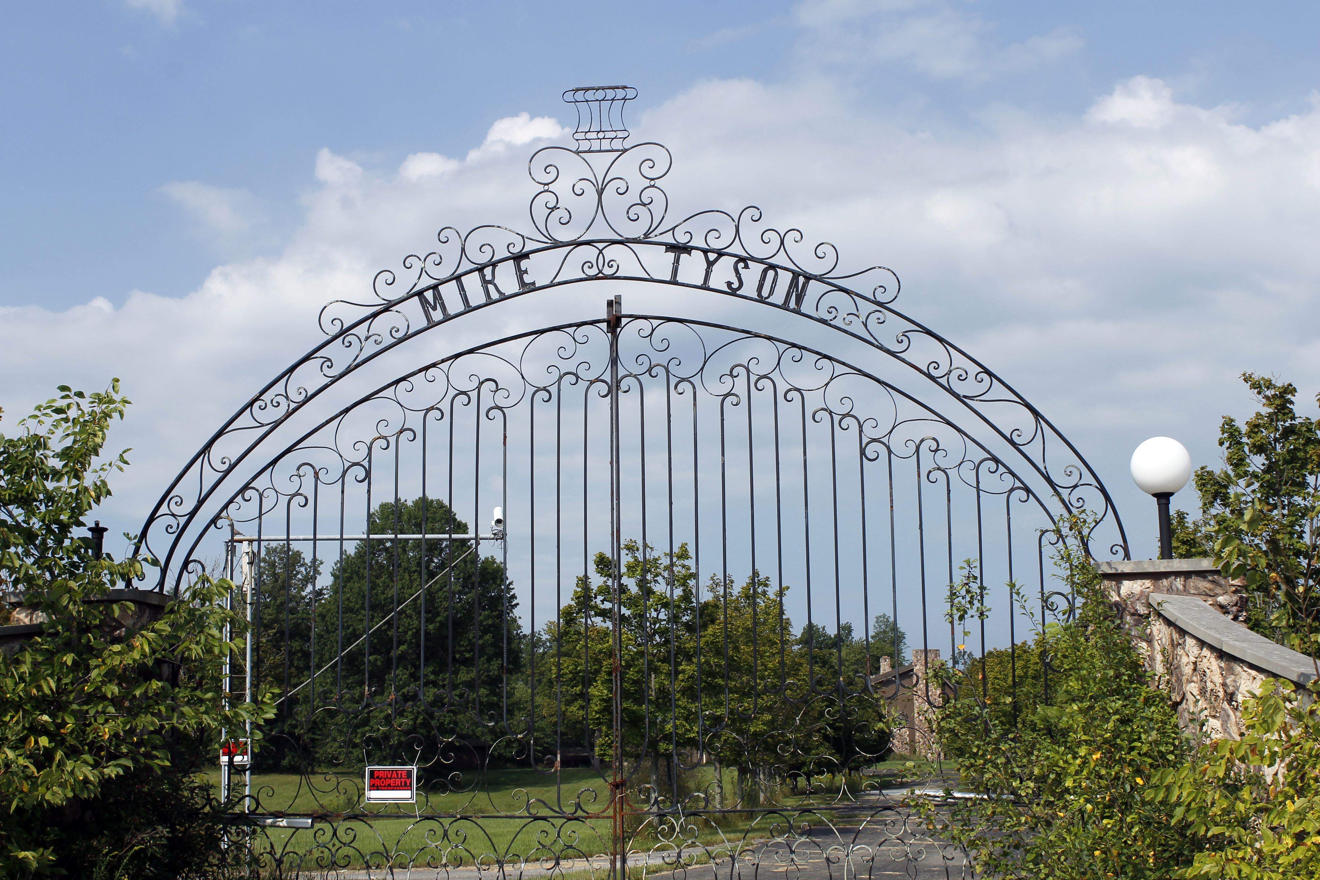 Gates of boxer Mike Tyson's mansion at 3737 State Route 534, Southington, Ohio.